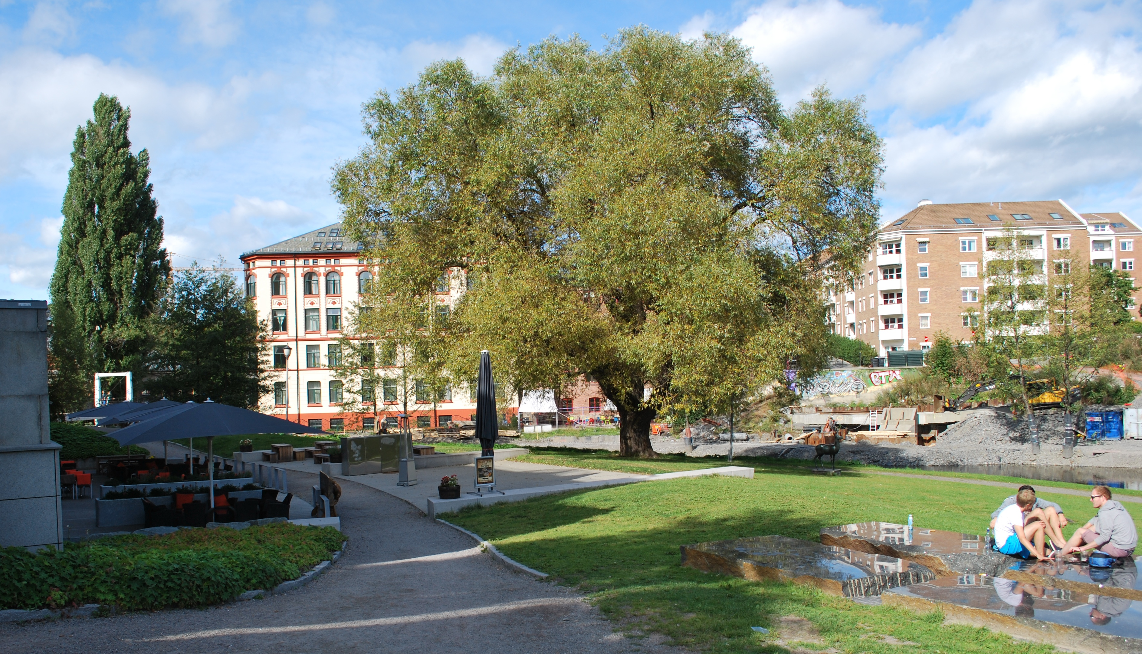 Kathe Lasniks plass (square), Hausmannsområdet neighbourhood, Oslo